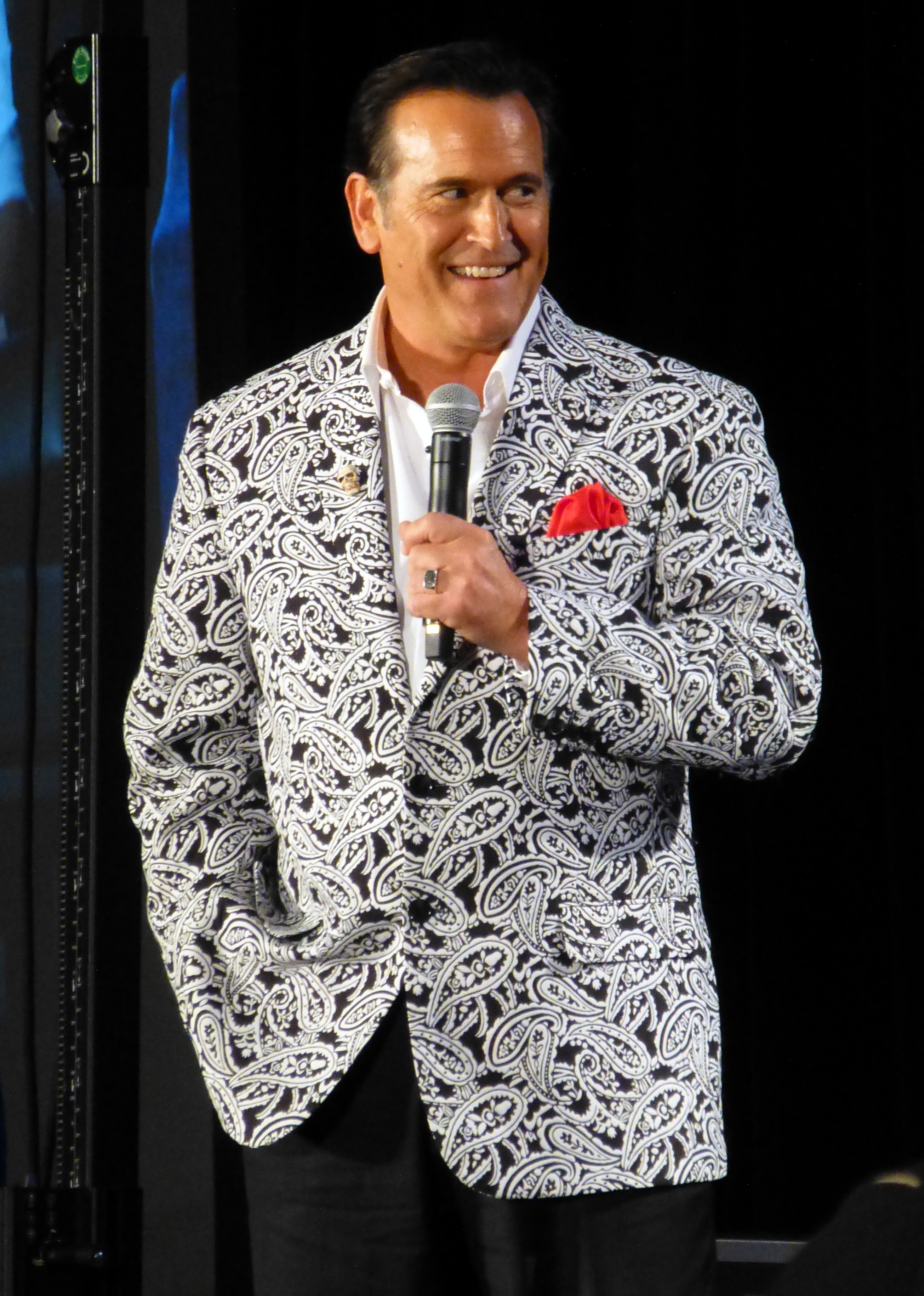 Panel with cast and crew of both Evil Dead 1 and 2, hosted by Bruce Campbell Guests at the 2015 Wizard World Chicago.